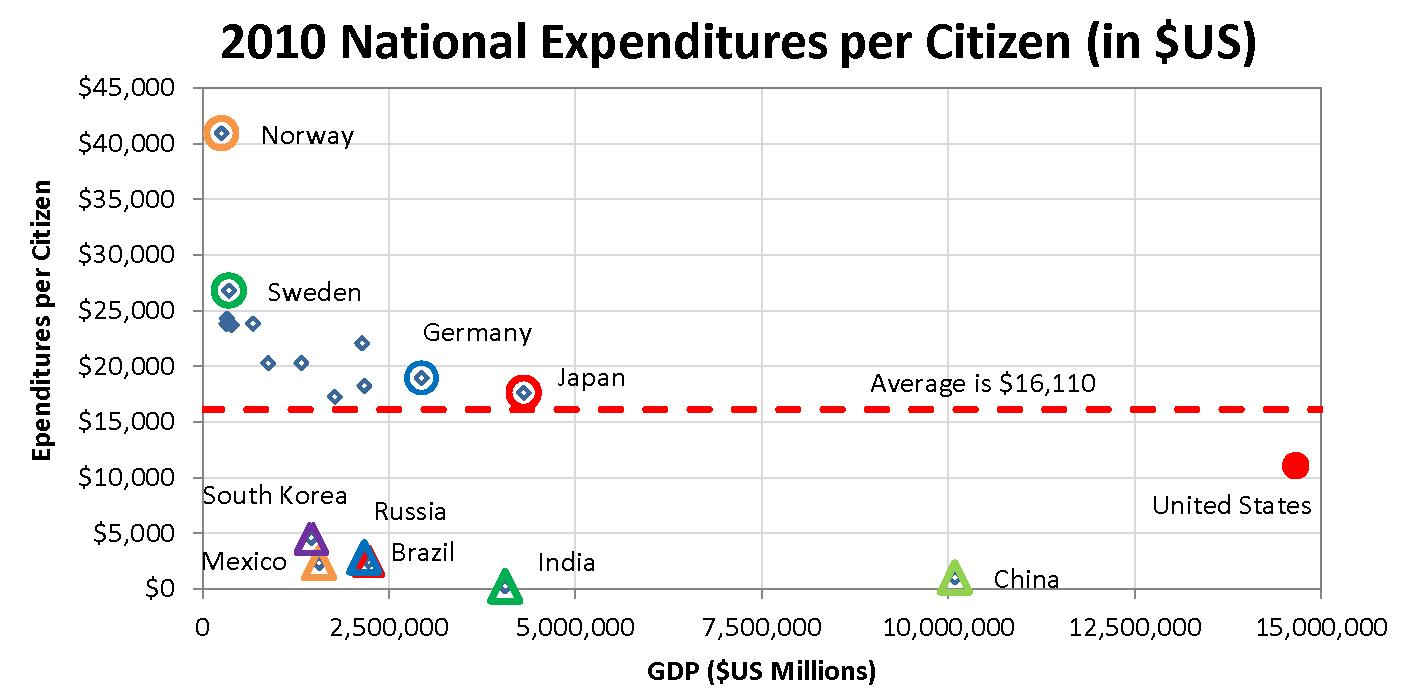 Comparison of USA Spending to other G20 nations